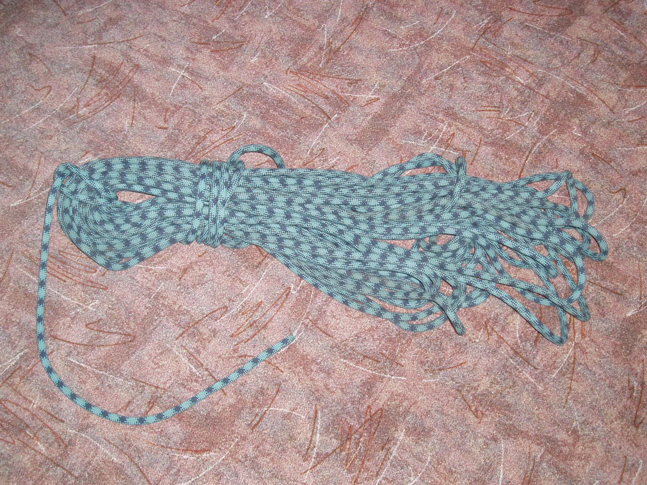 Climbing Rope. Manufacturer: Lanex ( Name: Rocky. Diameter: 9.8 mm. Purchased in 2001.